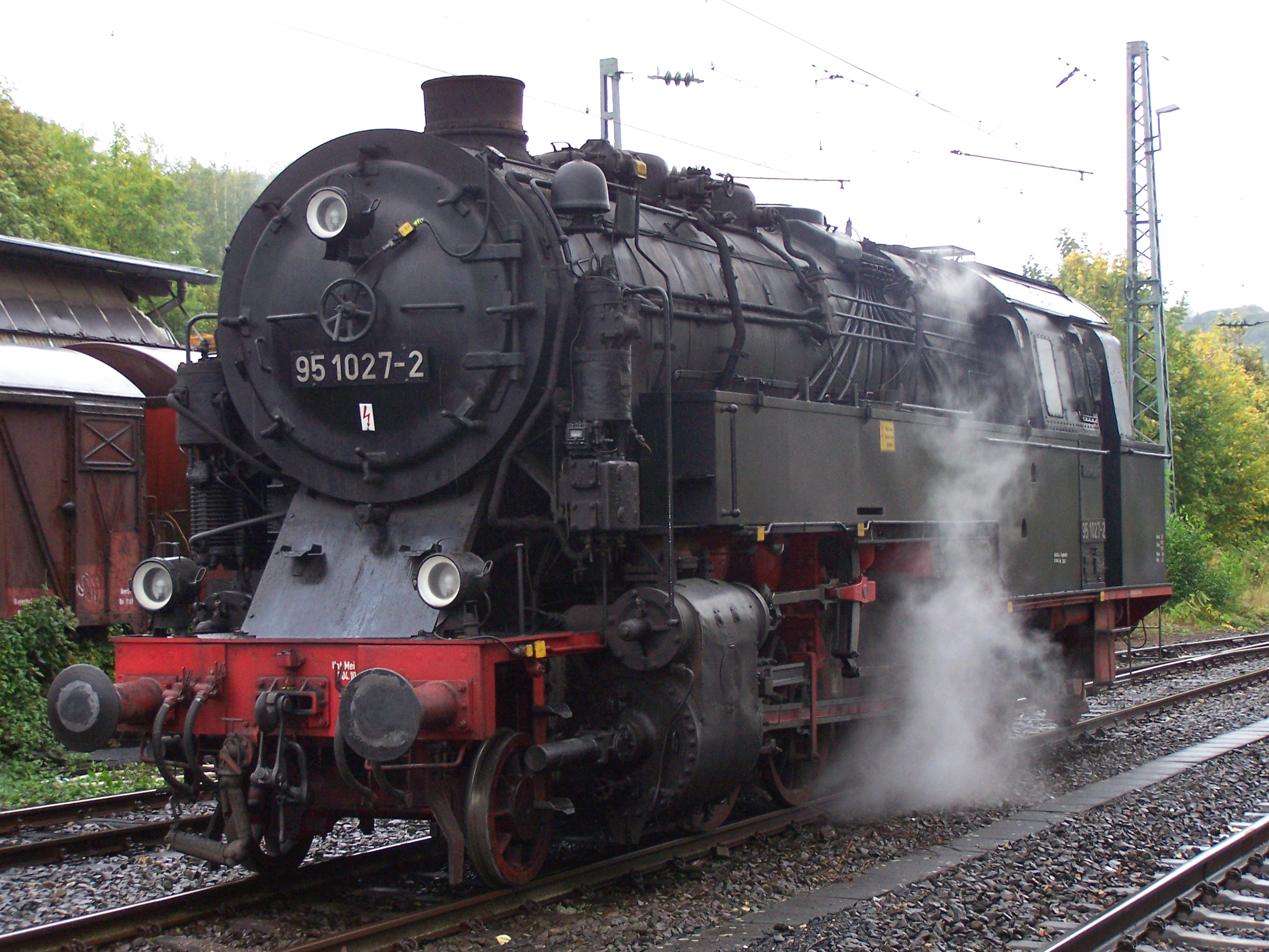 Historical steam locomotive 95 027 at the event 100 years of Kasbachtalbahn in Linz am Rhein, October 2012